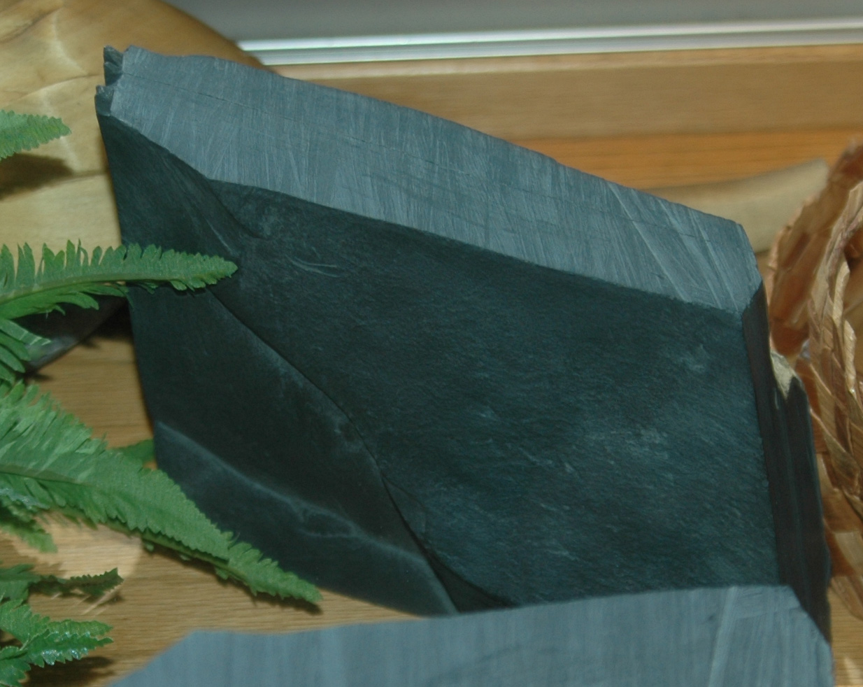 A piece of raw argillite. Photographed October 2009. Summary A piece of raw argillite. Photographed October 2009.